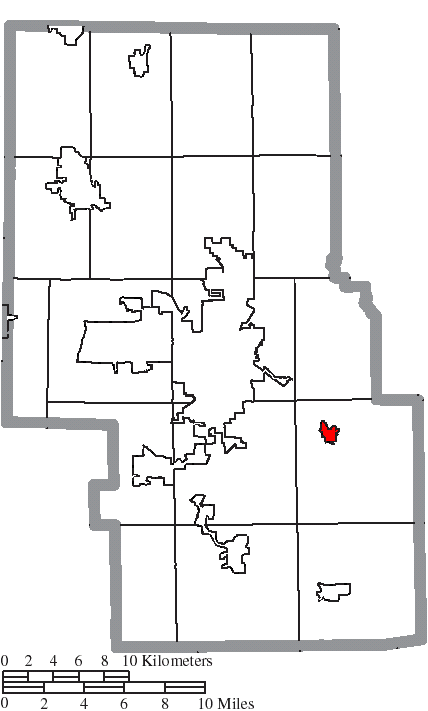 Map of the municipal and township boundaries of Richland County, Ohio, United States, as of the 2000 census, with the location of the village of Lucas highlighted. Township borders are shown only in unincorporated areas in order to differentiate incorporated and unincorporated areas more clearly.